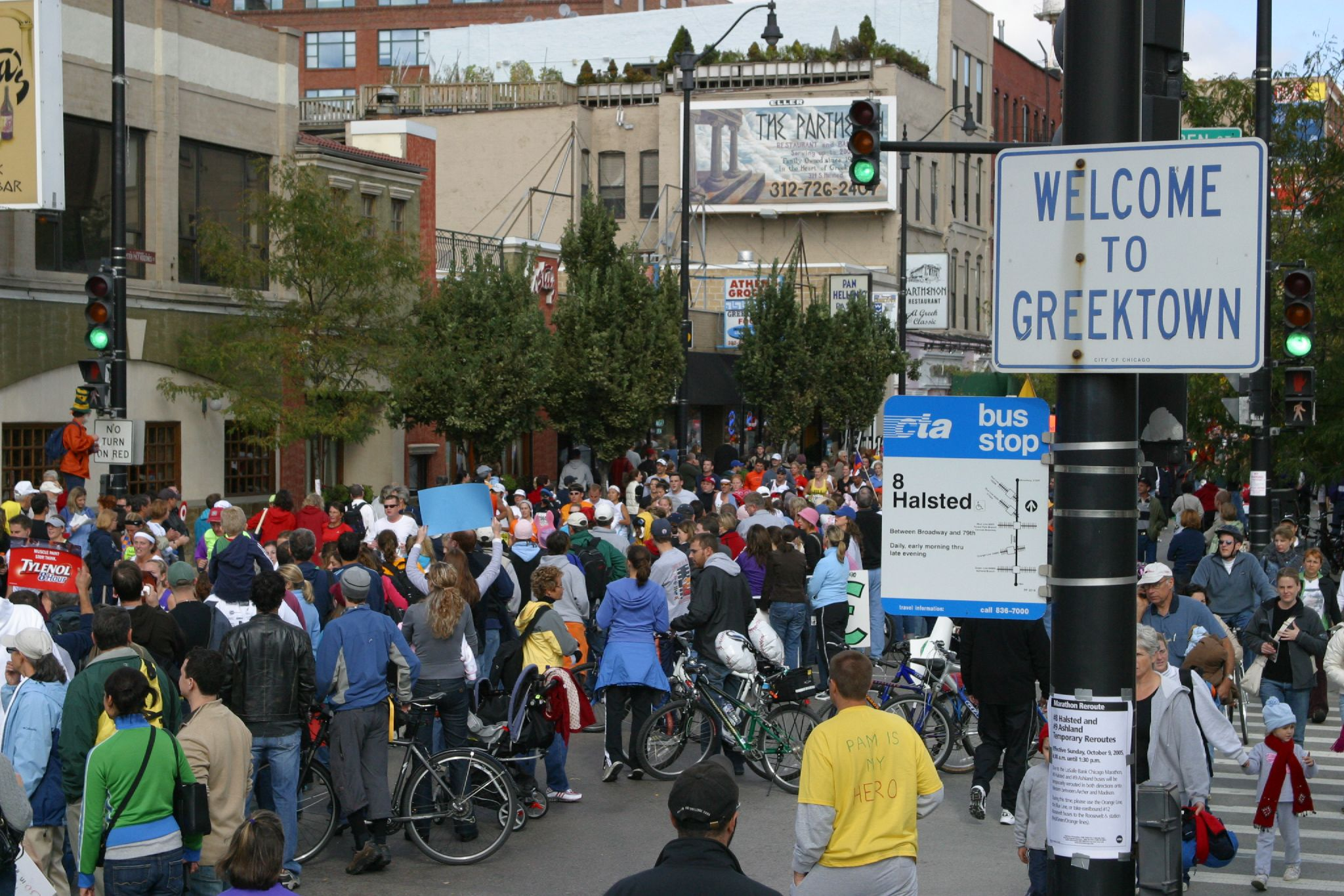 Greektown during a marathon, Chicago, USA.